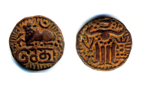 Setu coin